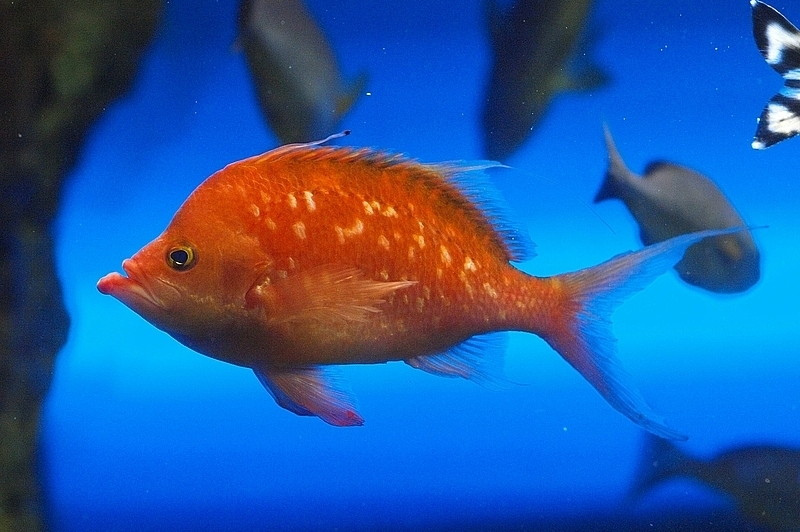 Sacura margaritacea Hilgendorf, 1879